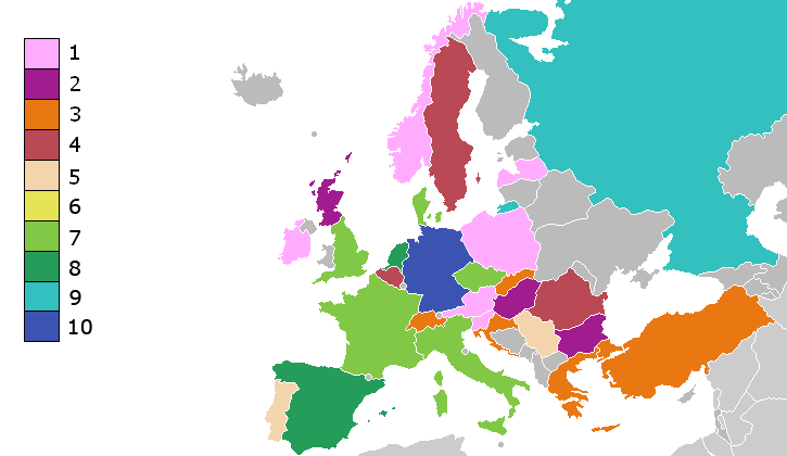 UEFA European Football Championship appearances (colors). Based on Image:BlankMap-Europe.png and Image:World cup countries best results and hosts.PNG